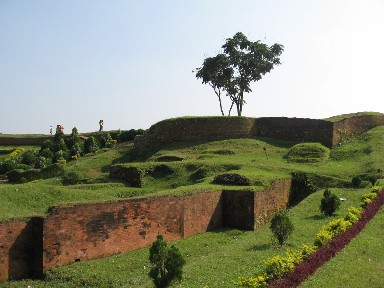 Ramparts of Mahsthangarh